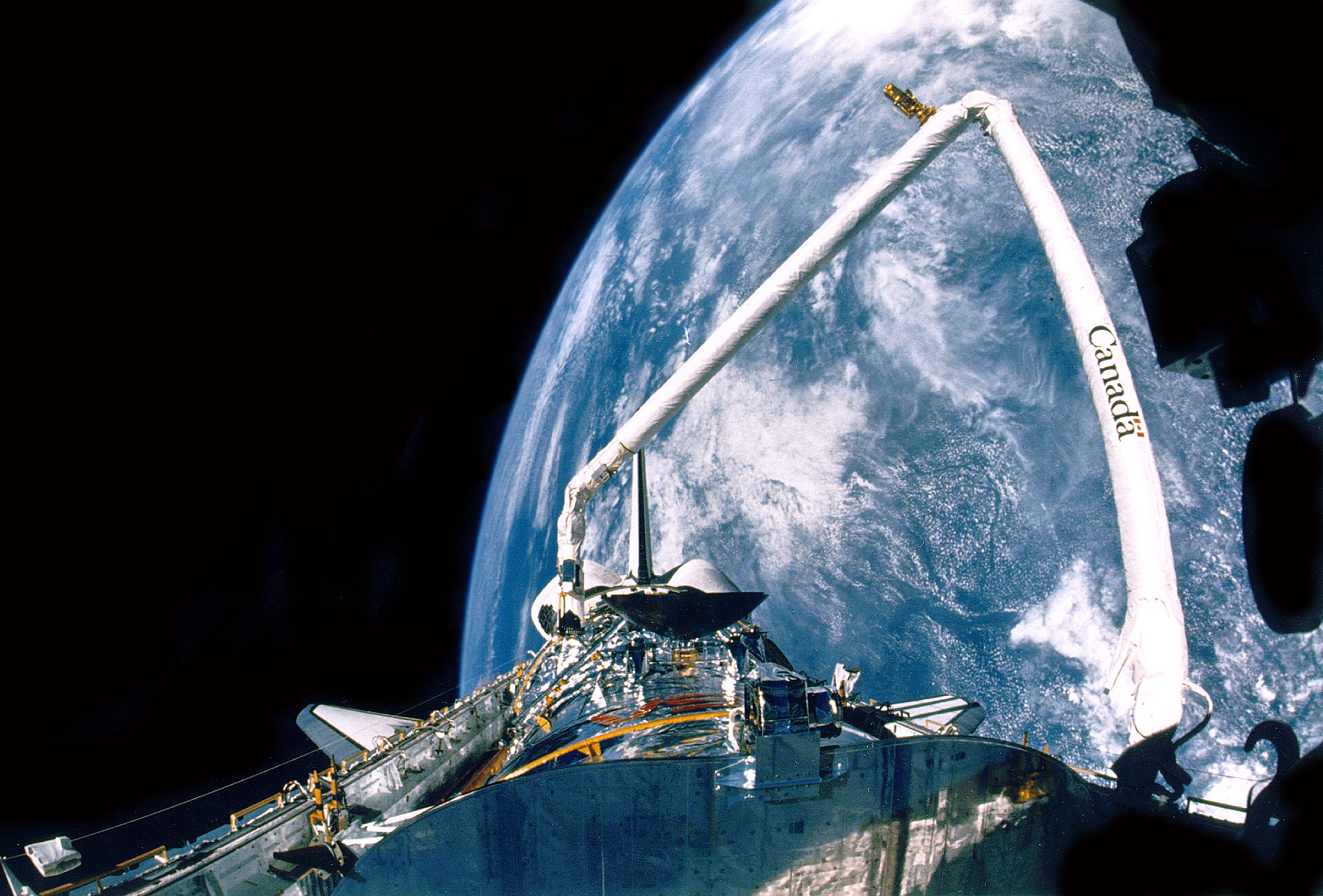 Wide-angle IMAX still showing the Hubble Space Telescope in the payload bay of Discovery.